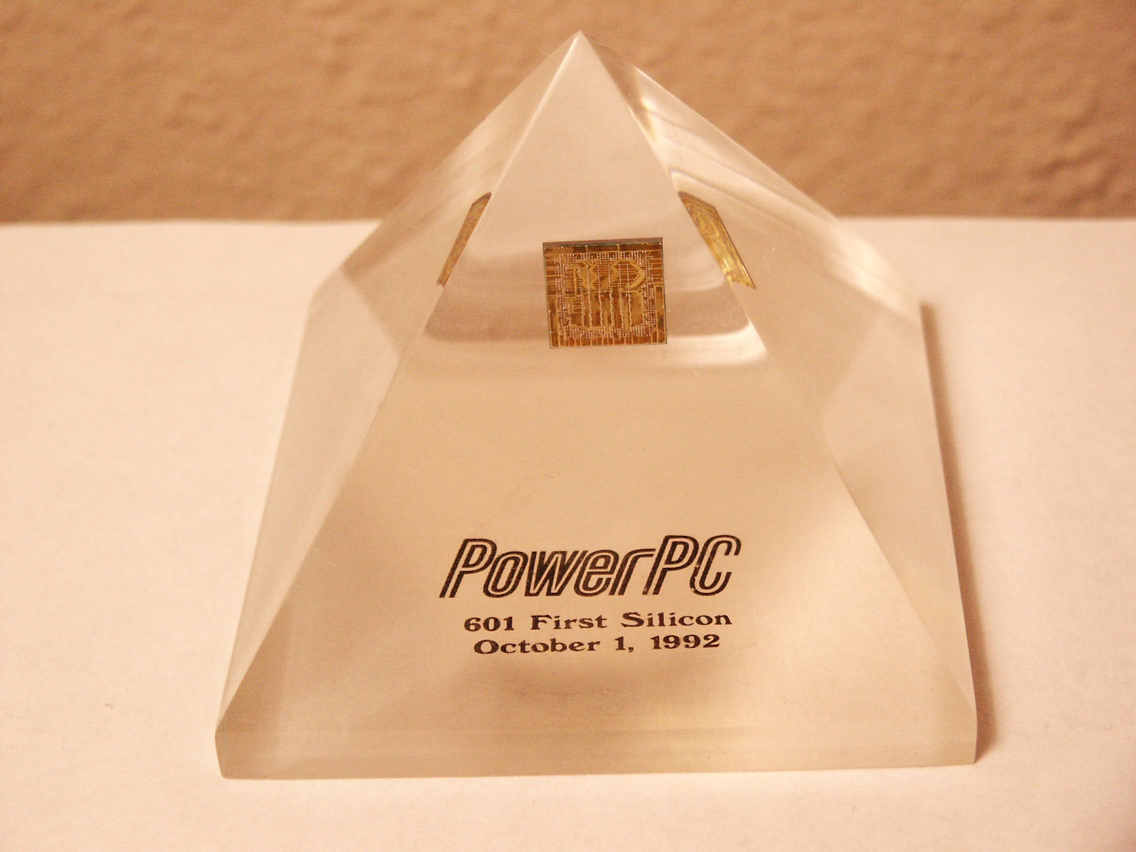 Powerpc lucite